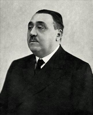 Filippo Sibirani (1880-1957), Italian mathematician from Bologna.